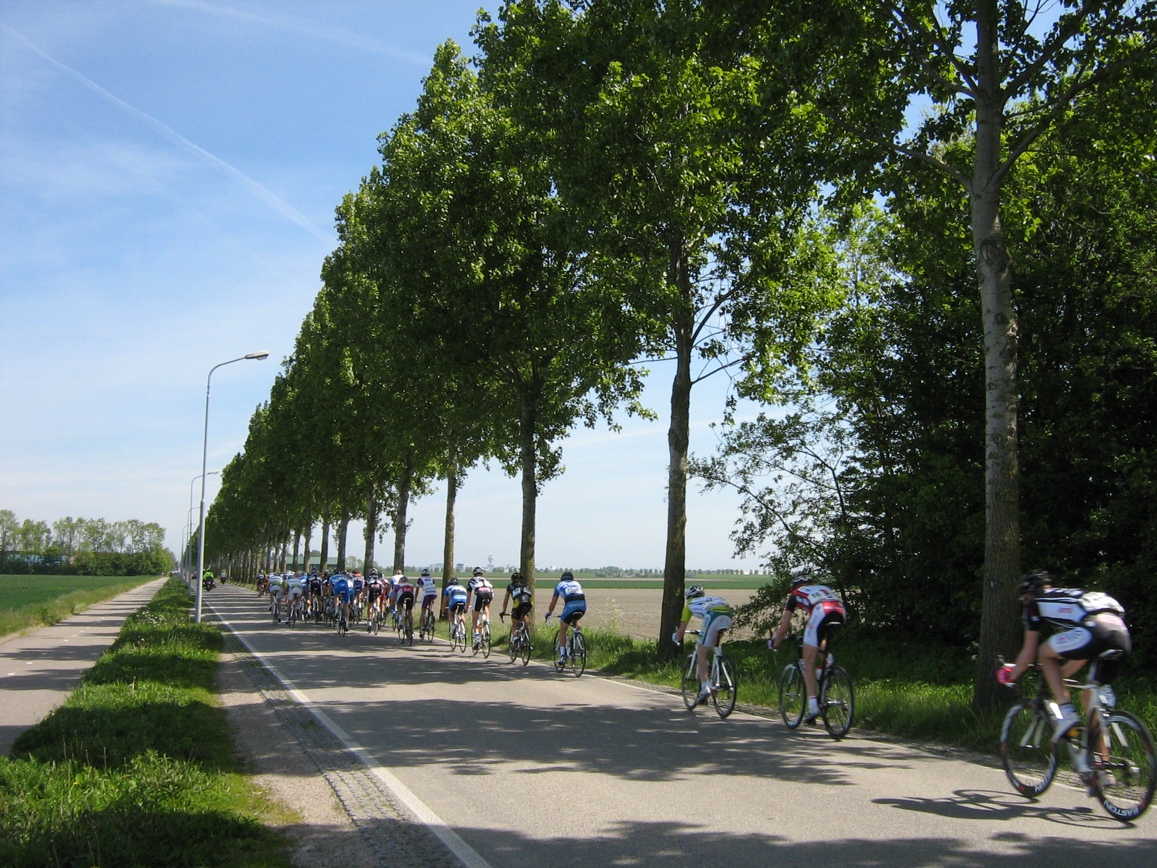 Group of professional road cyclists participating in the May 22 stage of the 2010 Olympia's Tour. Photograph taken at circa 12:25 PM along the Rijnlanderweg (road) just south of Hoofddorp, the Netherlands, about 20 km before the stage's finish line. Photo taken by the uploader, who has donated it to the public domain.